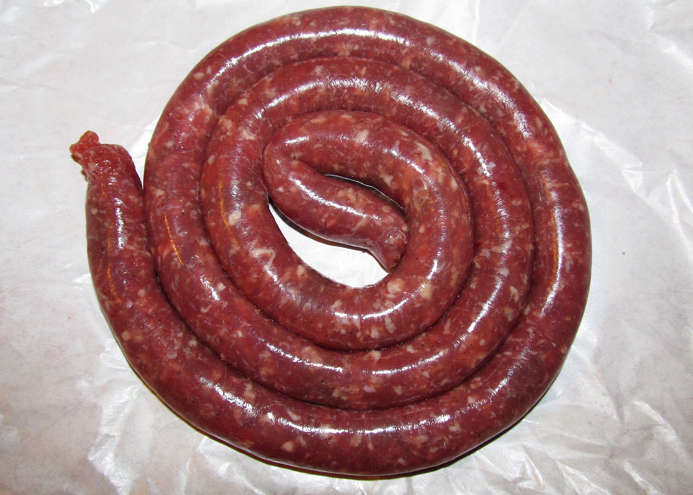 Salsiccia di Bra (sausage based on calf meat traditionally produced in Bra (CN, Italy))Piemontèis: sautissa ëd Bra